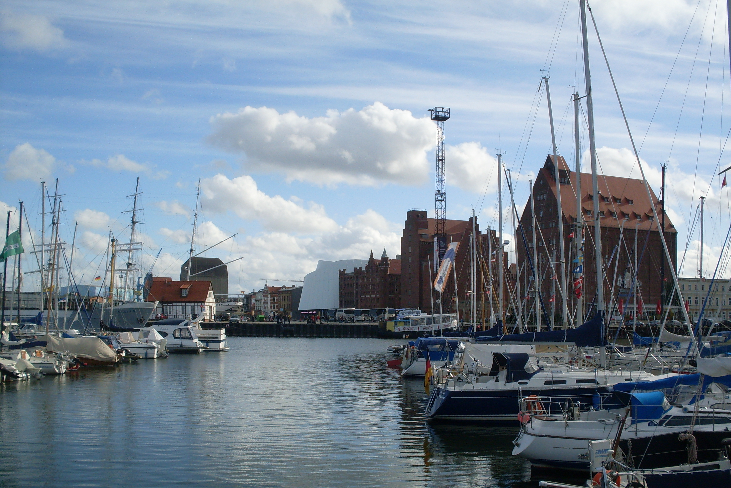 Stralsund: port